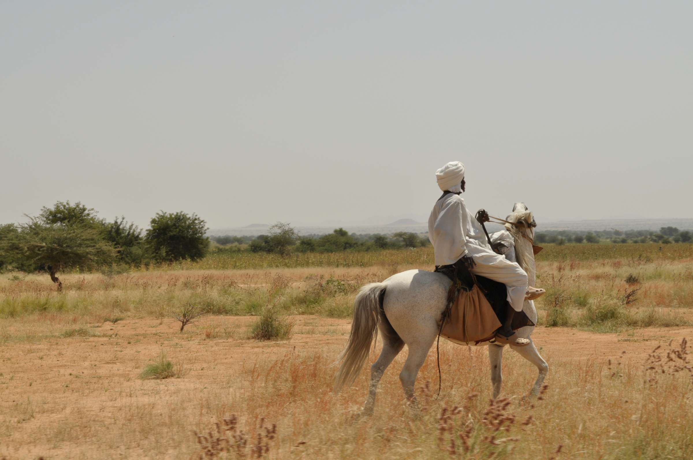 Darfur. Horseriding